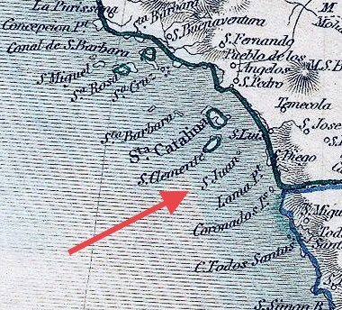 San Juan Island, California, from a map by Tallis, which is an exceptional example of John Tallis and John Rapkin's highly desirable 1851 Map of Mexico, Texas, and Upper California. Drawn by John Rapkin for issue in the 1851 edition of John Tallis' Illustrated Altas.